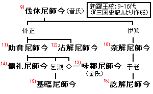 the geneology of Silla( 9th King ~ 16th King) / 新羅王系図(第9代～16代)